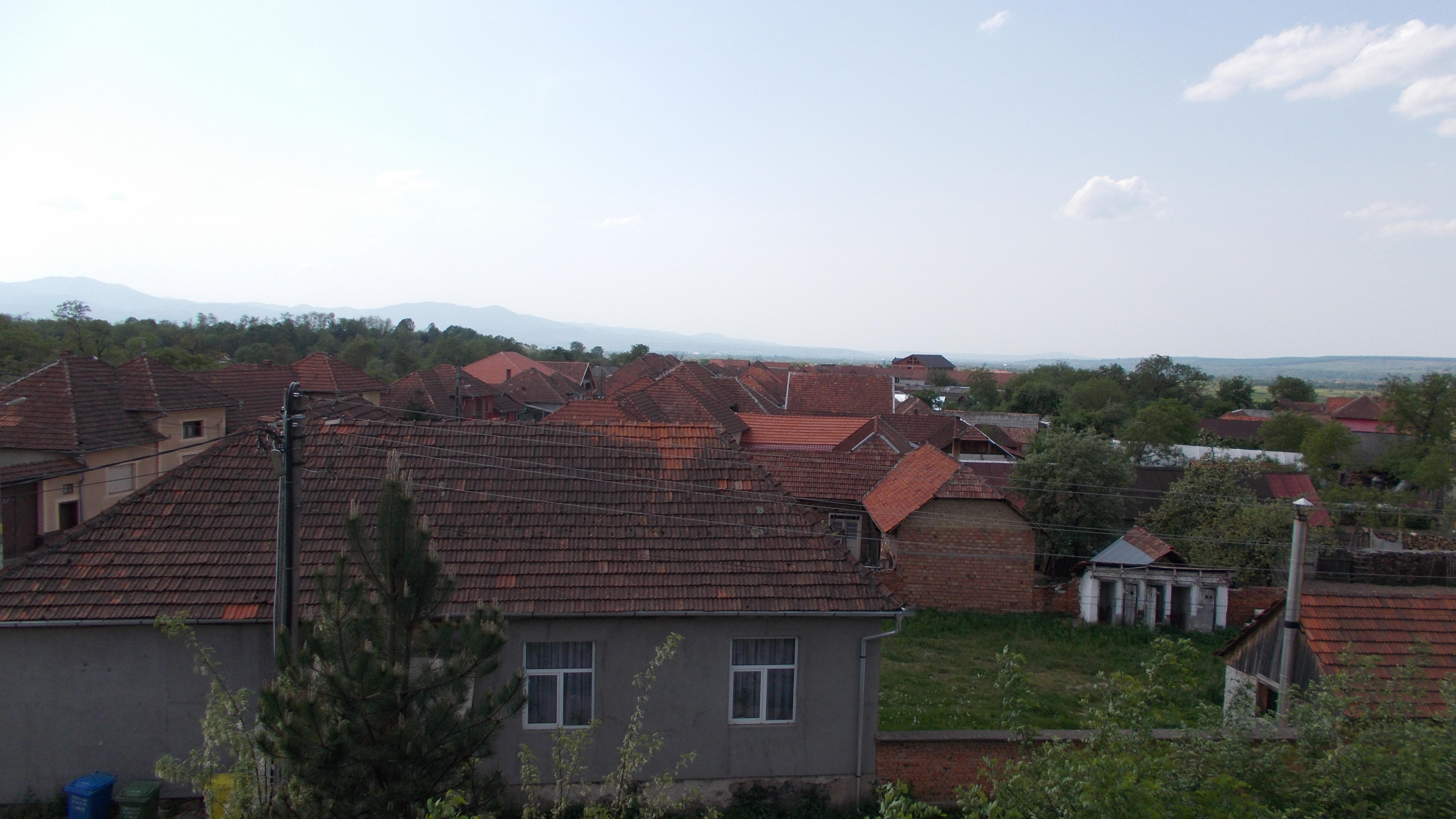 Brădet, Bihor County, Romania